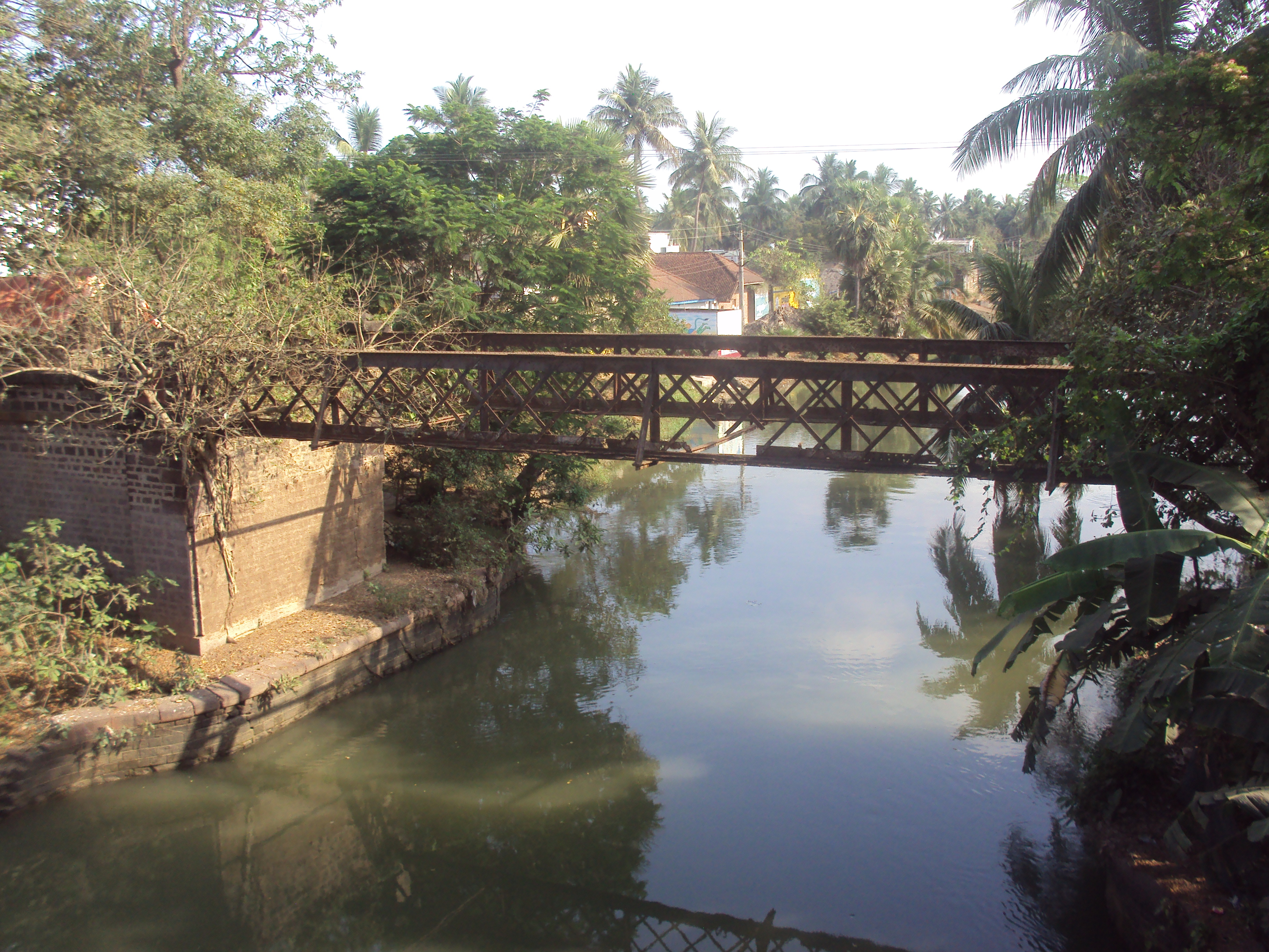 old bridge at pippara, w.g.dist., andhra pradesh